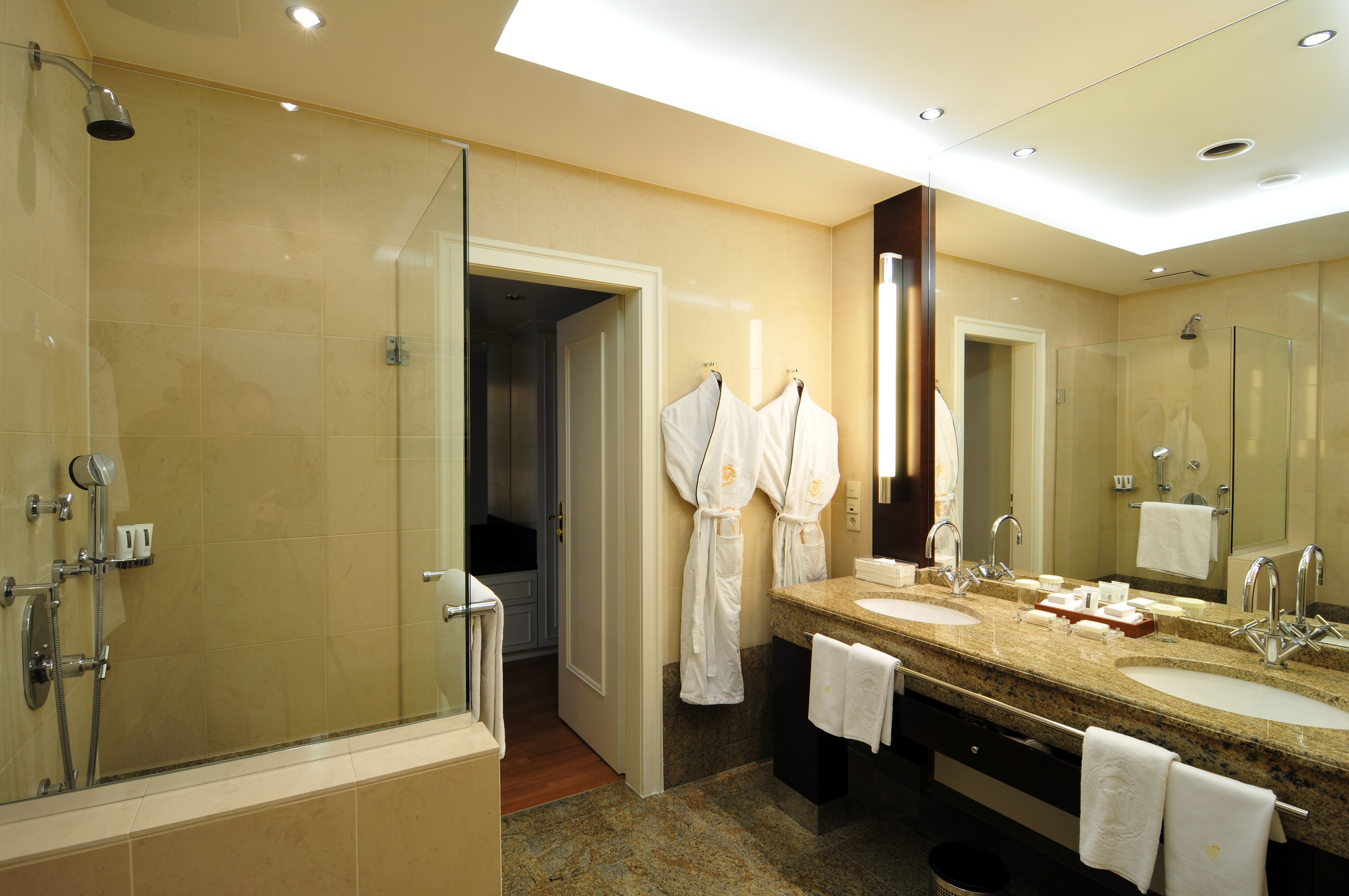 Wiesbaden, Germany, Hotel Nassauer Hof Wikipedia im Landtag – Hessen 26.–28. Februar 2013 in Wiesbaden Fragen zur Nachnutzung Wenn Sie Fragen zur Nachnutzung dieses Bildes haben, können Sie sich jederzeit gern an wenden